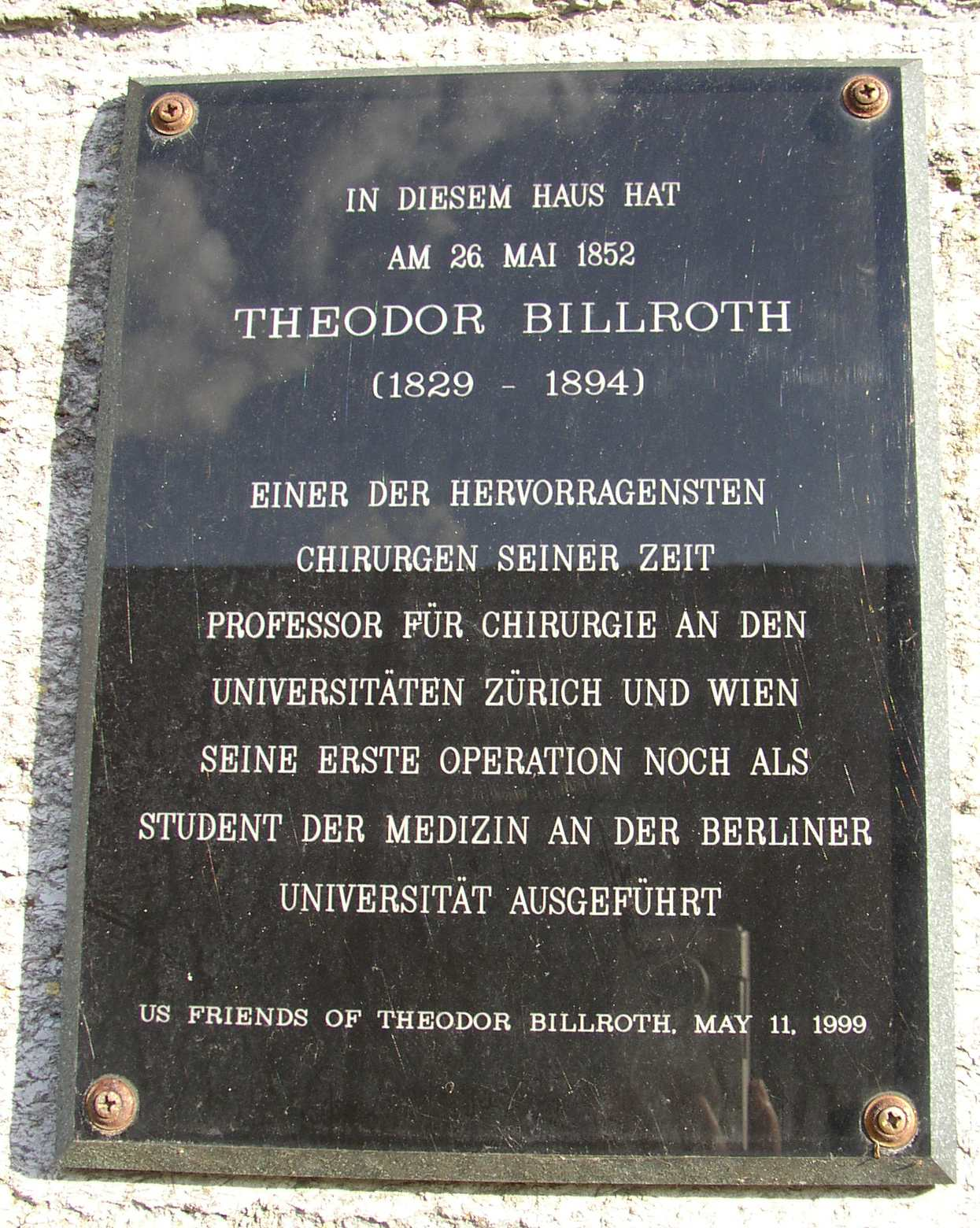 Memorial tablet to Theodor Billroth in Kremmen-Staffelde in Brandenburg, Germany